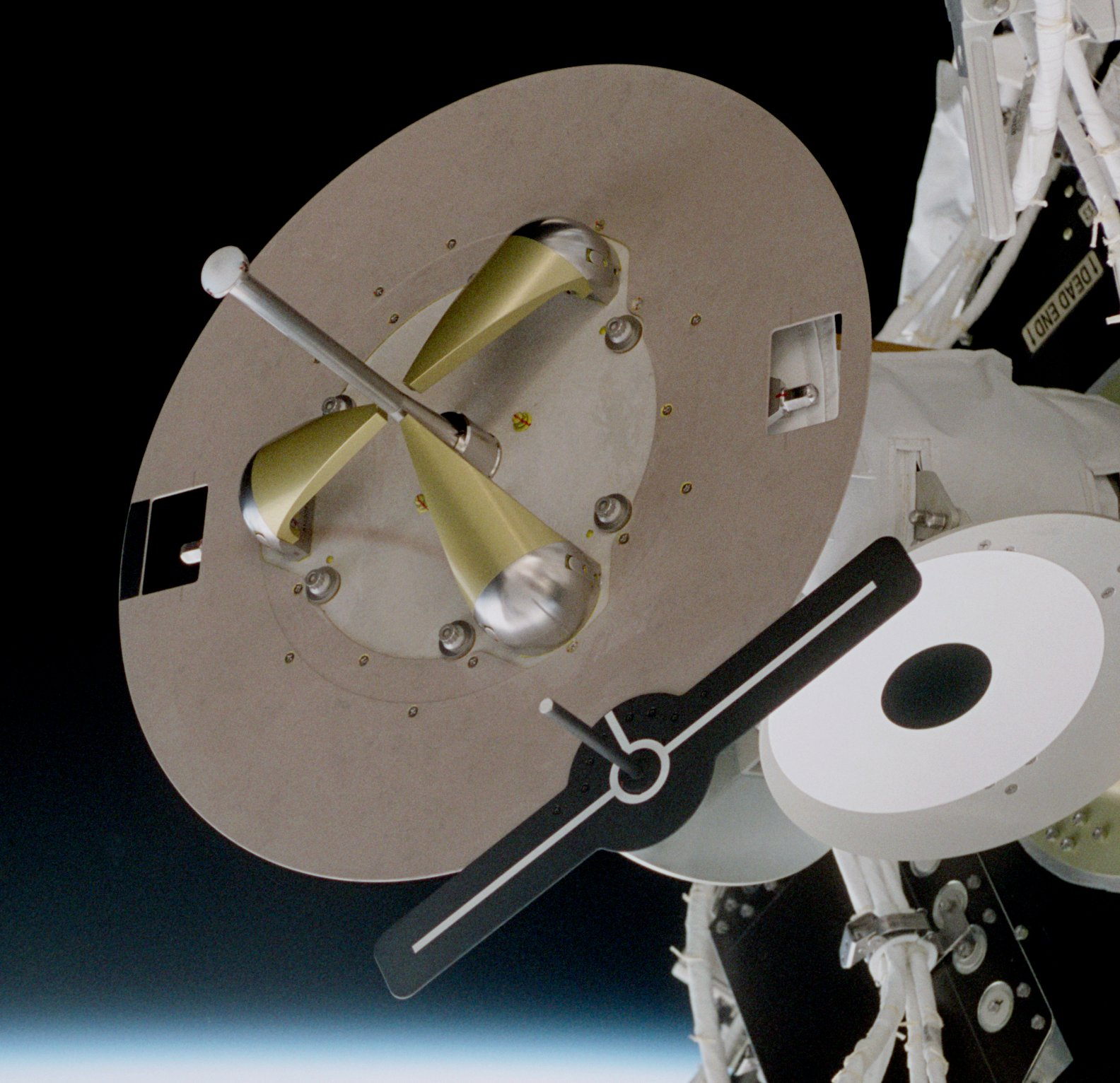 None.